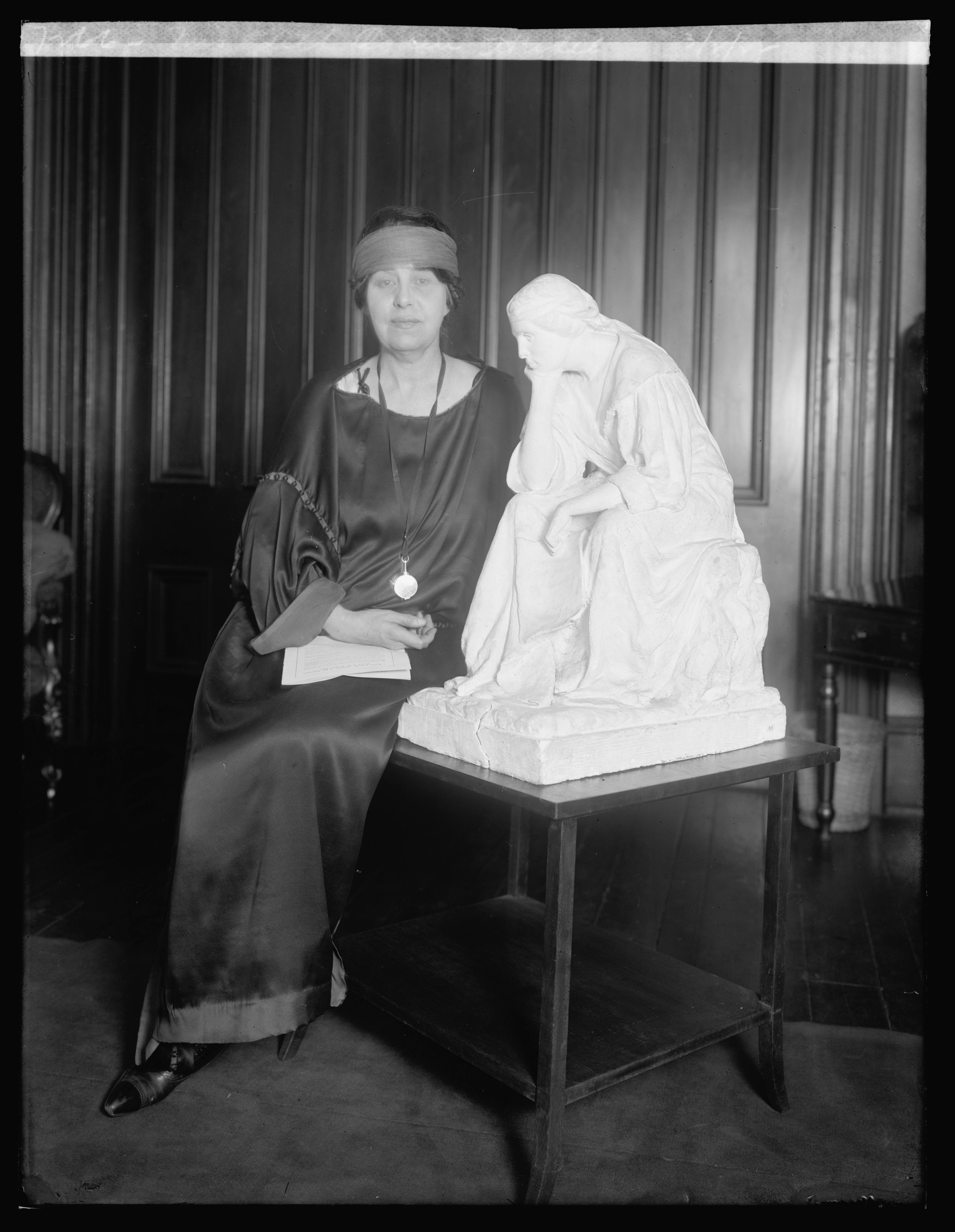 Title: Mrs. Edith Ogden Heidel, 3/2/22 Abstract/medium: 1 negative : glass ; 8 x 6 in.